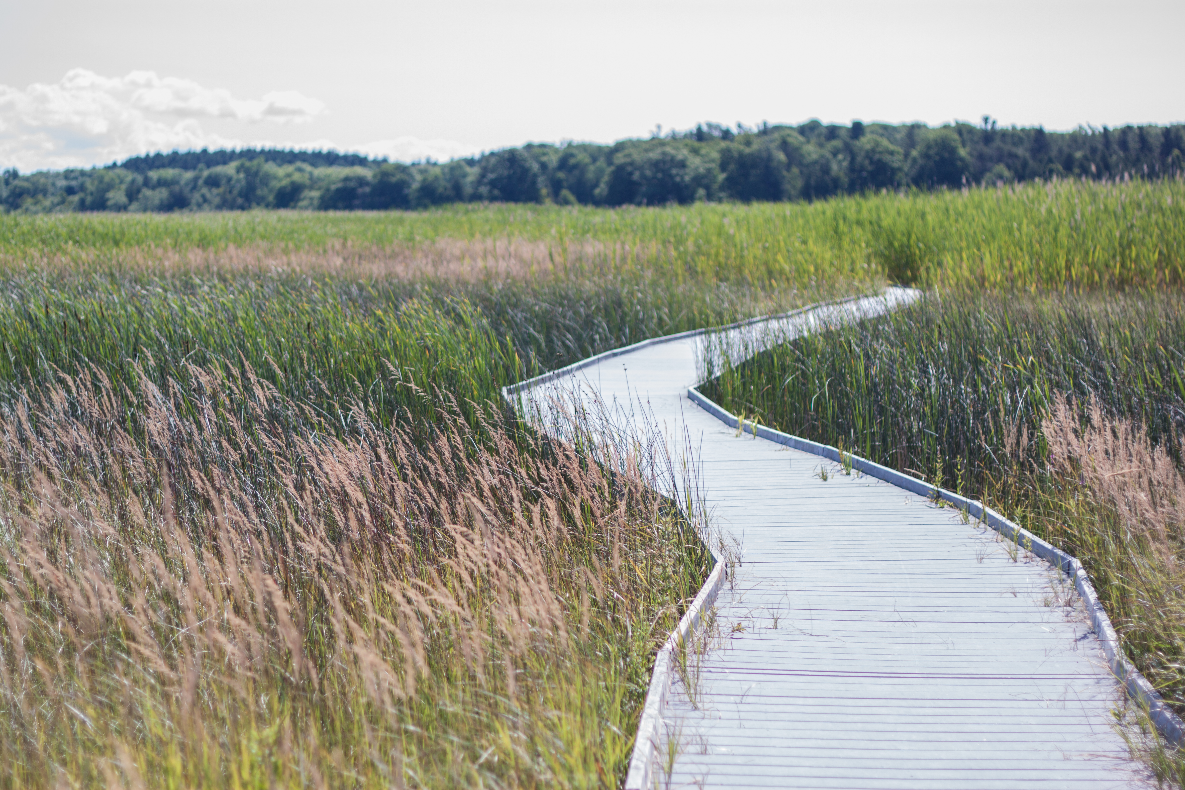 Boardwalk in the marsh at Presqu'ile Provincial Park